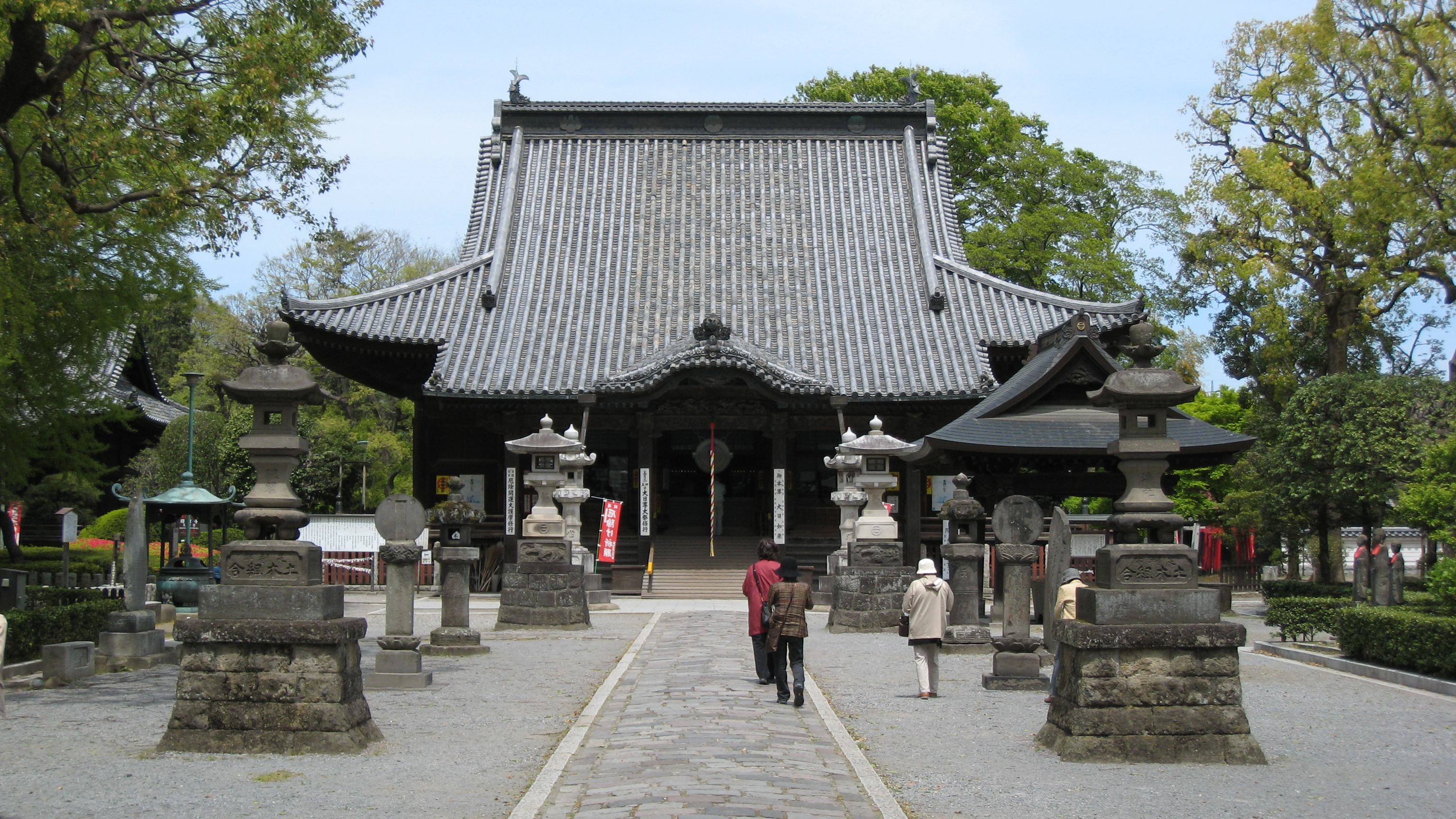 Banna-Ji(Temple) Hondo(Main Temple) ,Ashikaga city,Tochigi,Japan